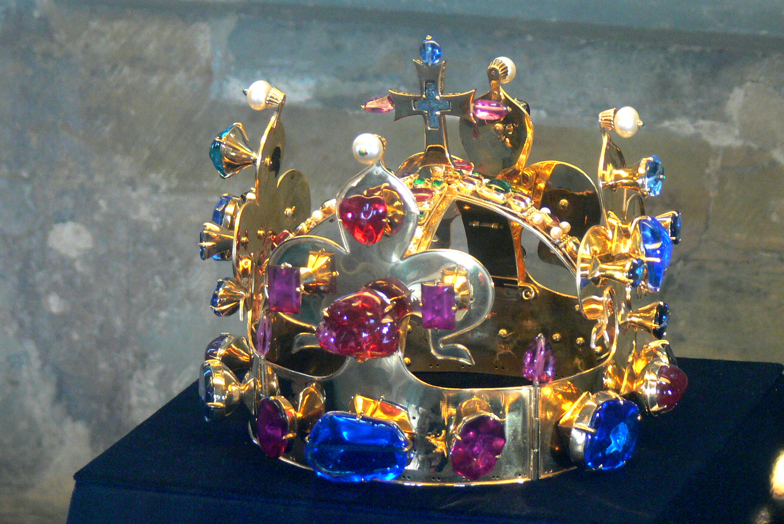 Crown of Saint Wenceslas ( copy ), situated in the Vladislav Hall ( Prague castle ).